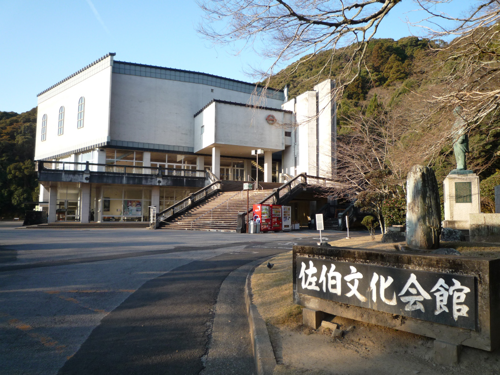 Saiki cultural hall